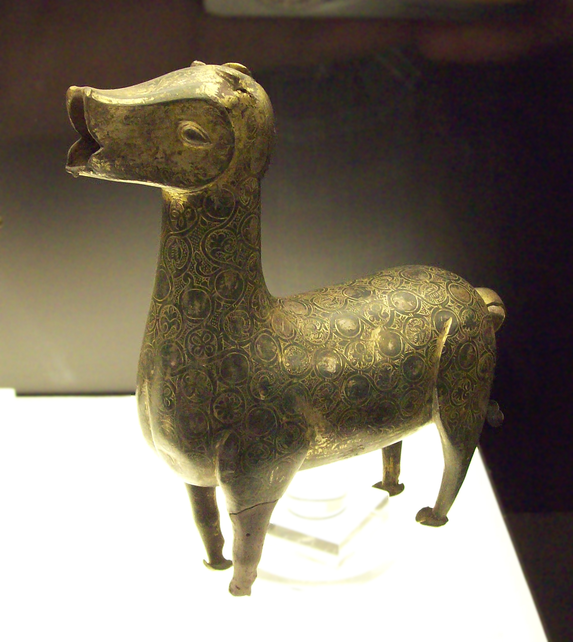 Hind-shaped fountain spout. Artwork from the Caliphate of Córdoba.